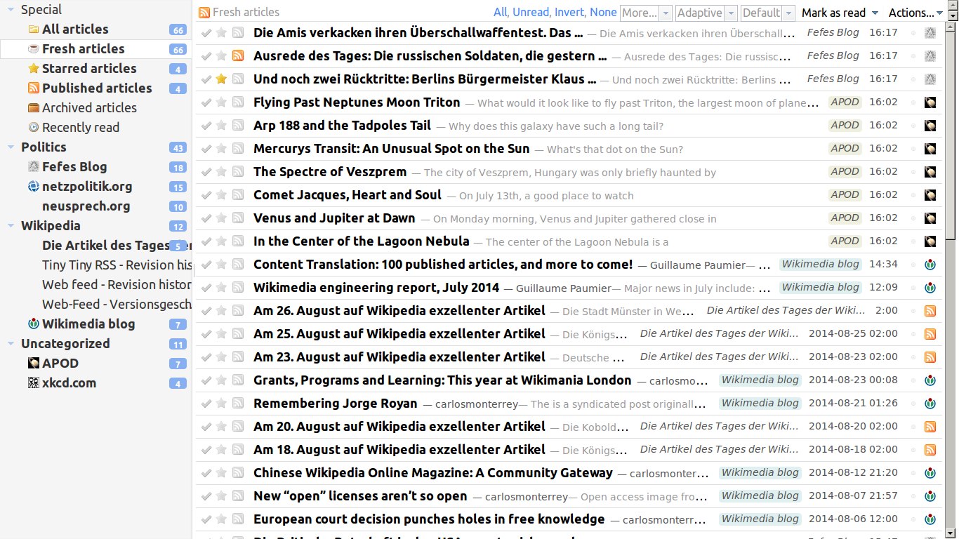 Tiny Tiny RSS installation with an english interface.